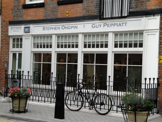 This is supposedly where John Lennon met Yoko Ono. I took this picture in September of 2009